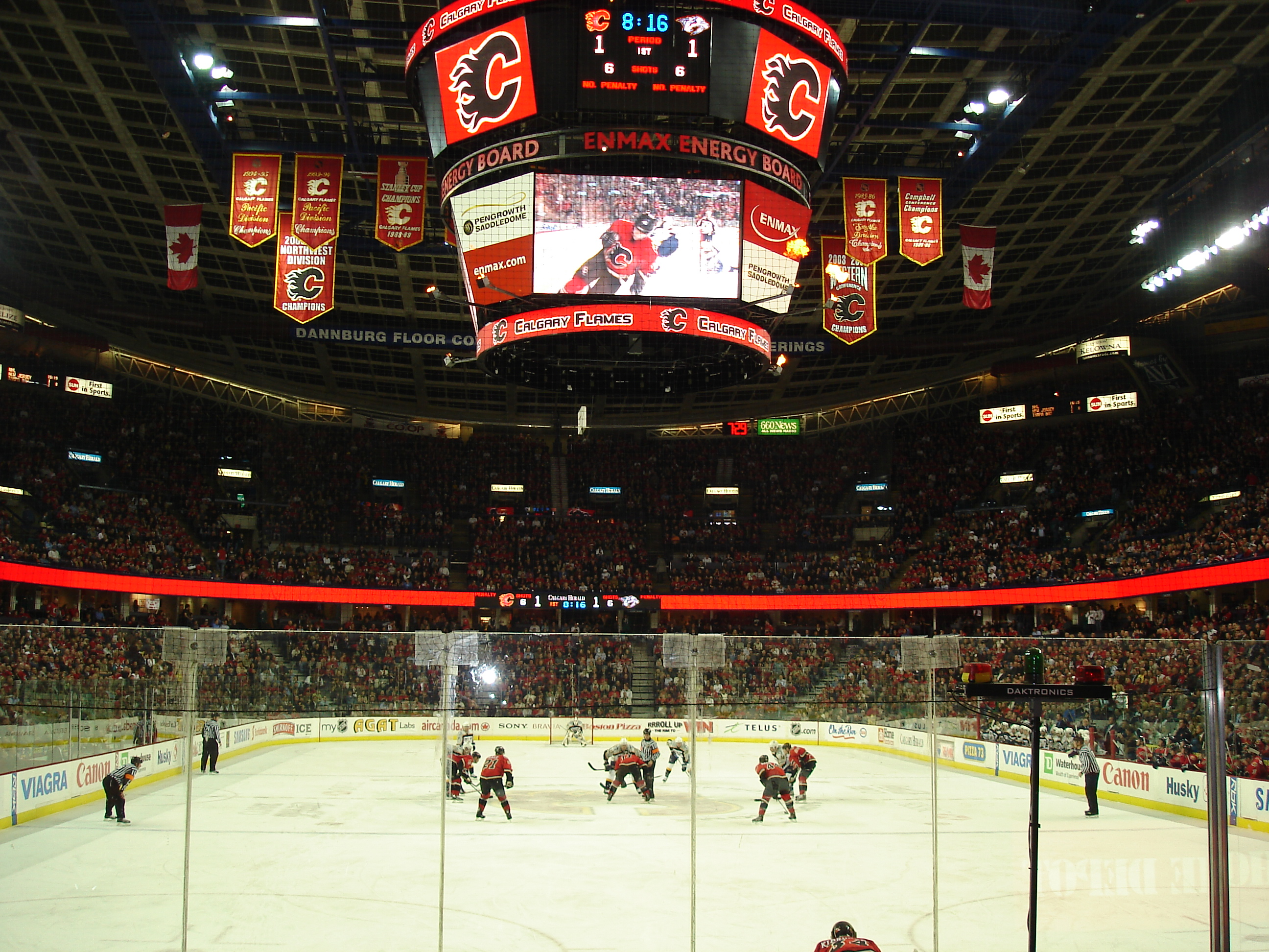 Inside the Pengrowth Saddledome during an NHL game.